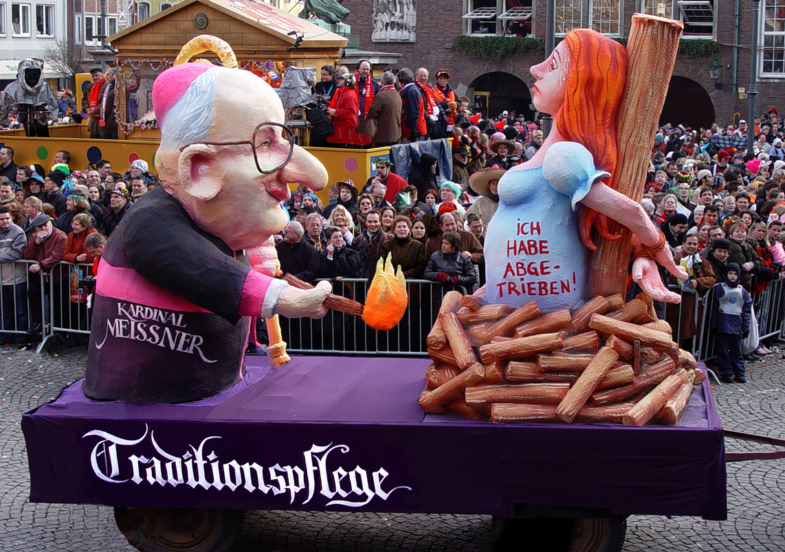 German Cardinal Meisner maintains tradition, at Rosemonday-float in Düsseldorf, 2005. Photo and sculpture by Jacques Tilly. Foto und Großplastik von Jacques Tilly.